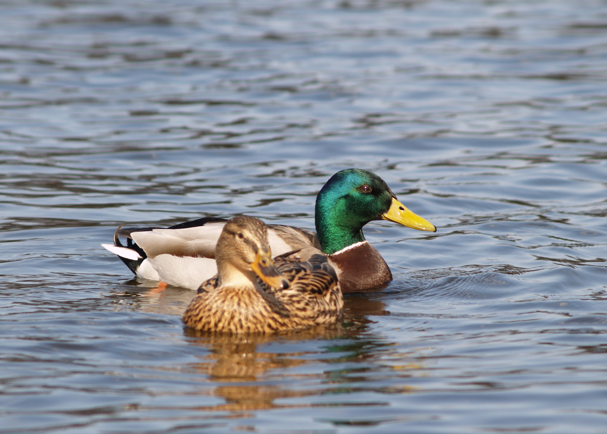 Mallard (Anas platyrhynchos), Chemnitz, Germany